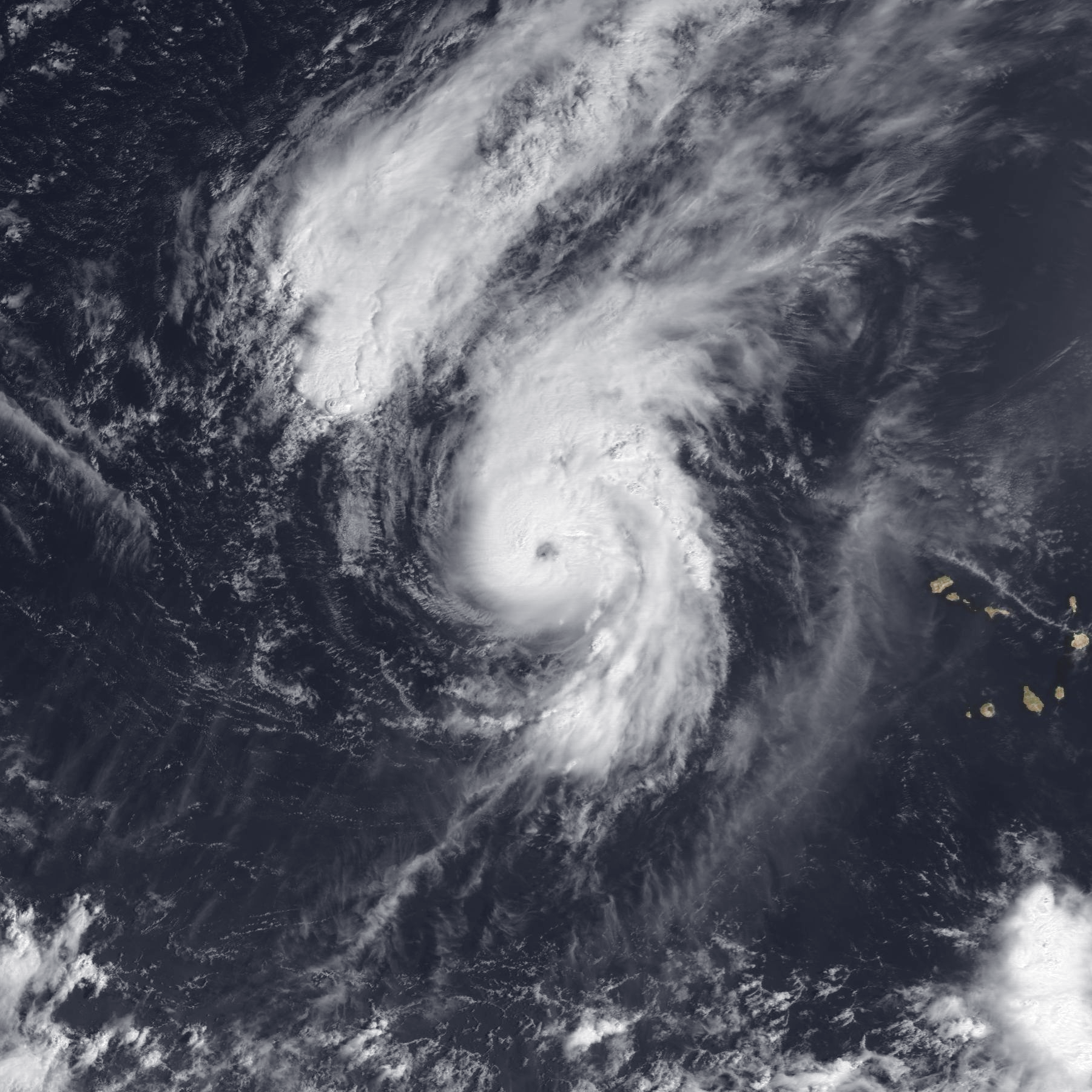 Hurricane Julia at peak intensity west of the Cape Verde Islands on September 15, 2010